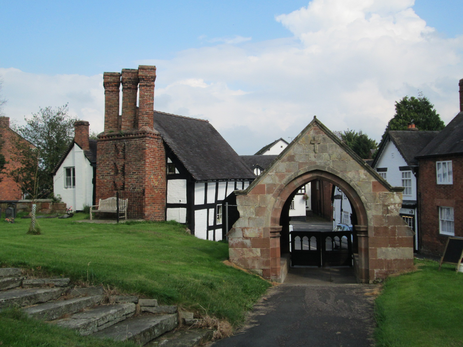 The lychgate of St Luke's Church, Hodnet, Shropshire.